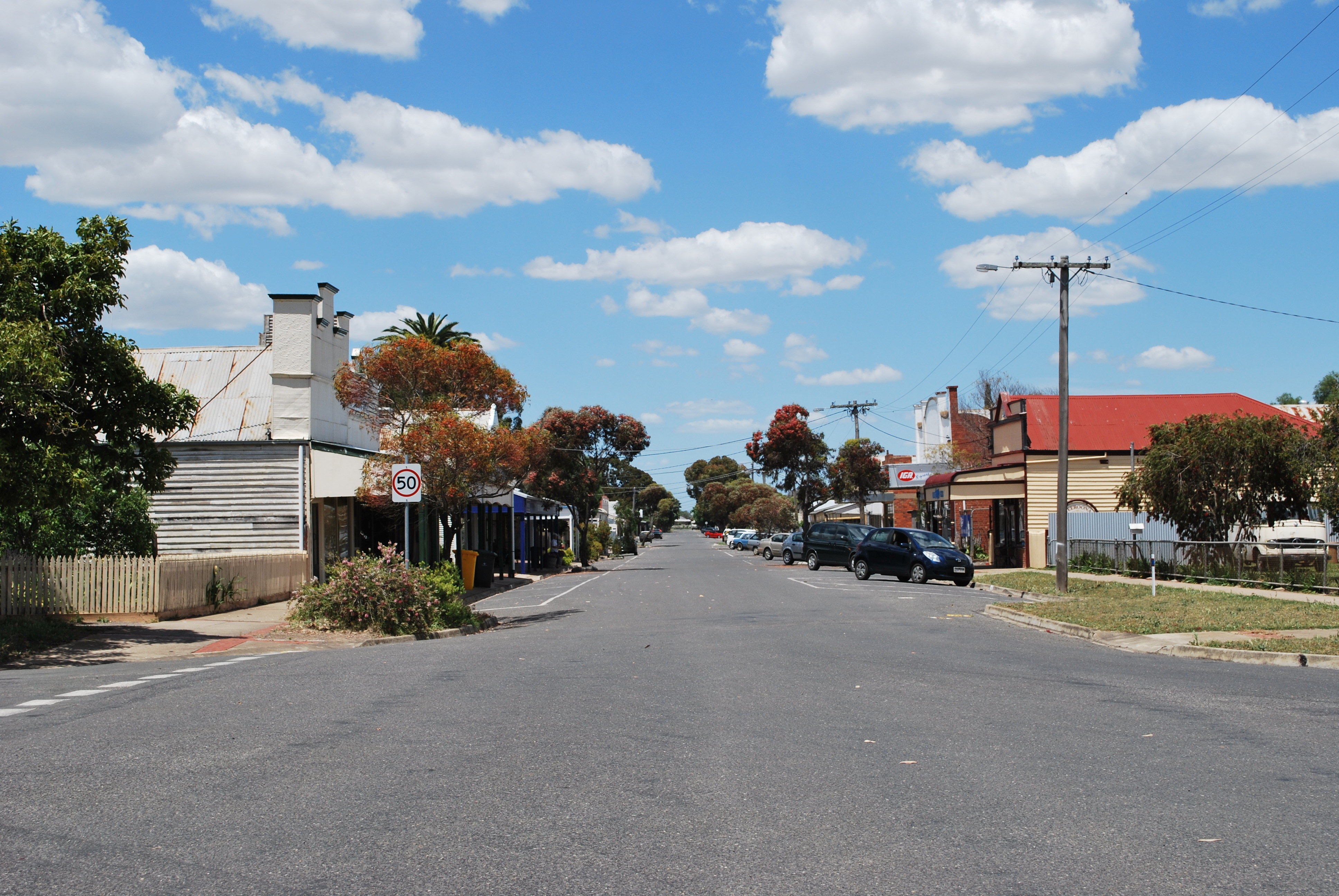 McDonald St, the main commercial street in Murtoa, Victoria